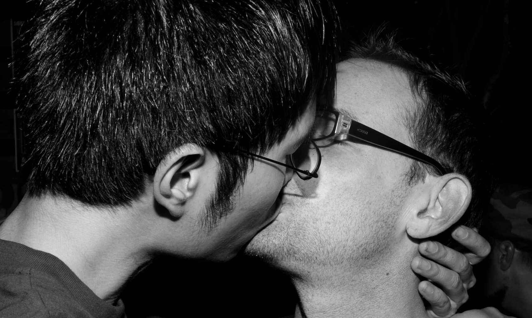 SML Pro Blog: Eagle NYC / 2007 / SML Friday night at the Eagle. SML Flickr Tags: 2007 SML Flickr Tags: Eagle NYC SML Flickr Tags: friends SML Flickr Tags: gay SML Flickr Tags: Kiss SML Flickr Tags: life SML Flickr Tags: LGBT SML Flickr Tags: men SML Copyright Notice Copyright 2007 See-ming Lee 李思明 SML (SML Flickr / SML Pro Blog). All rights reserved.